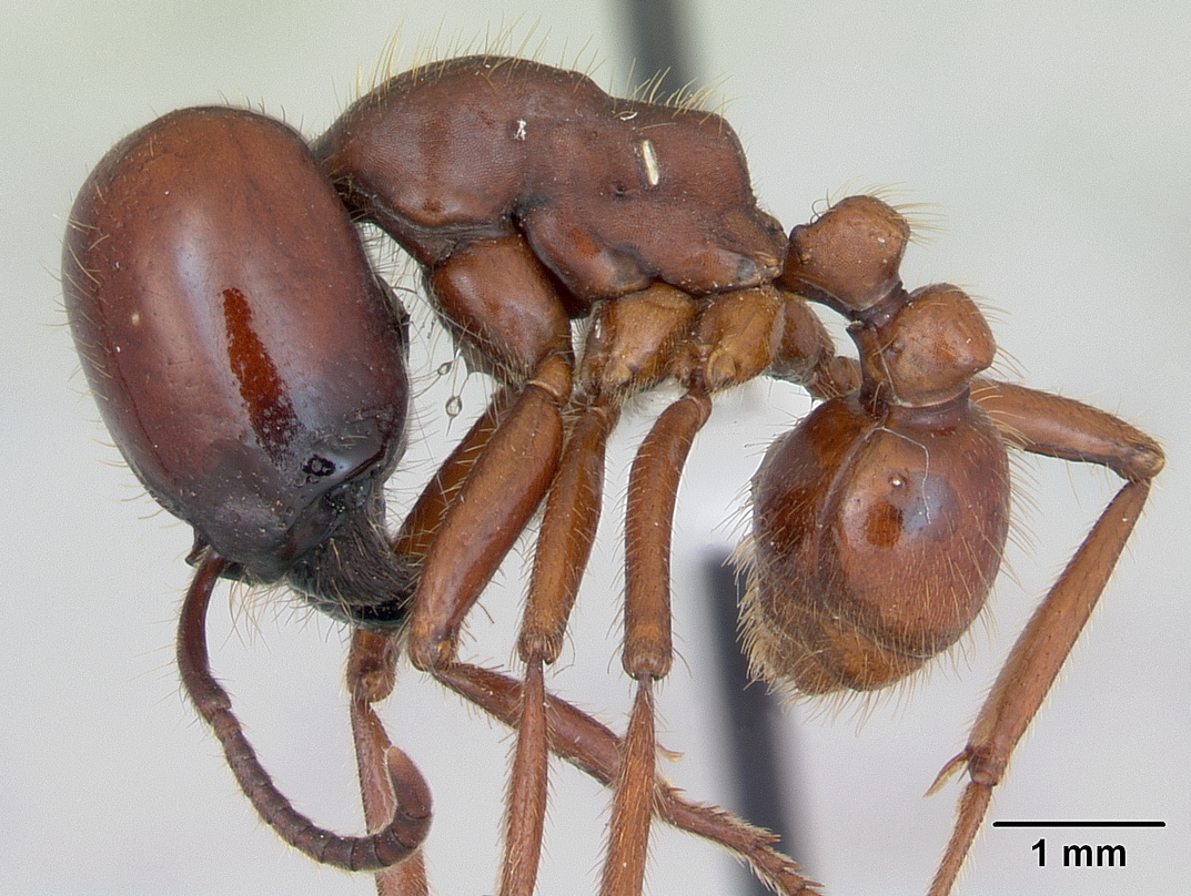 Profile view of ant Labidus coecus specimen casent0173511.